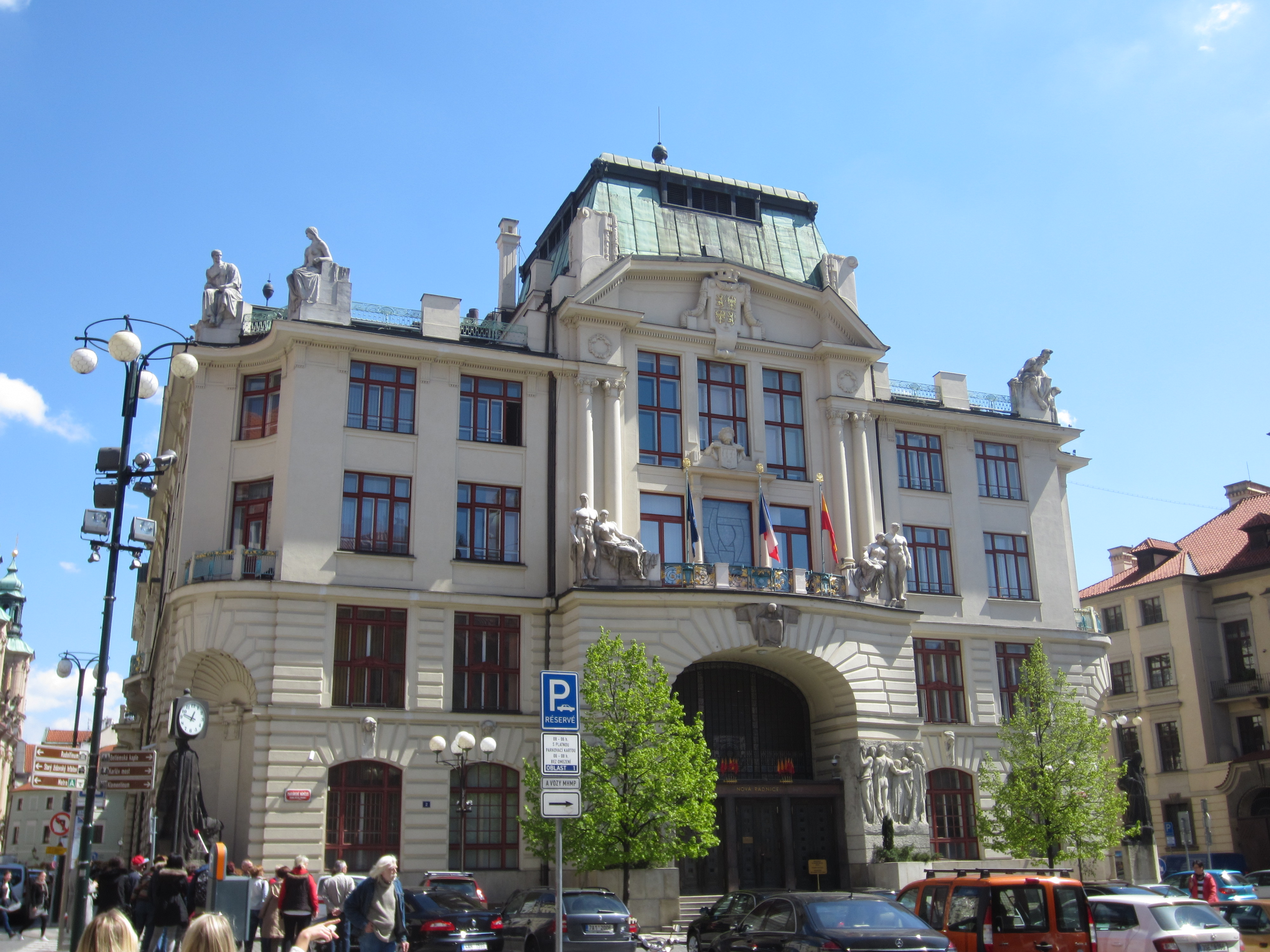 Prague, Czech Republic, April 2016